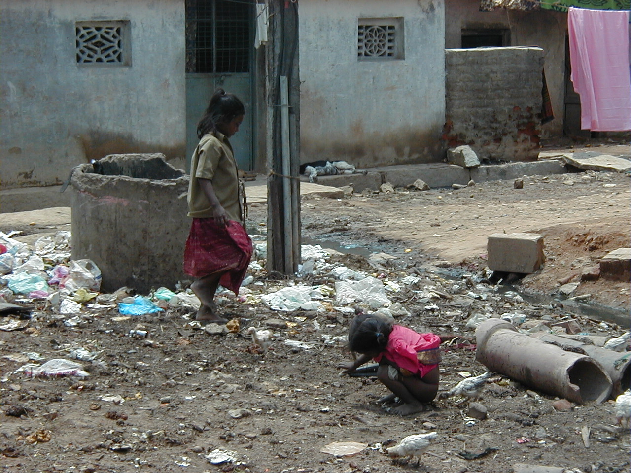 Photo by Christine Werner 2005